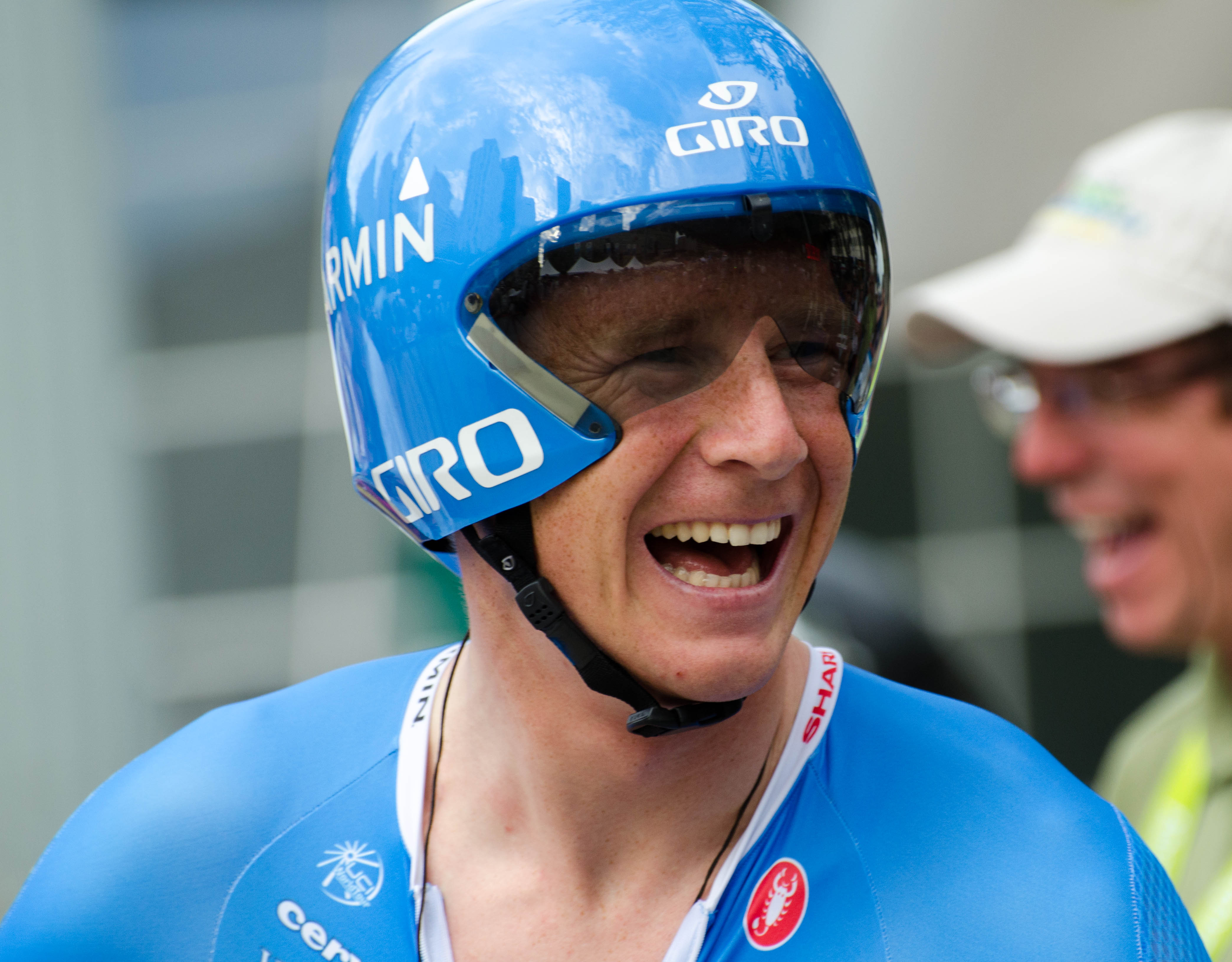 Professional cyclist Fabian Wegemann at the 2013 Tour of Alberta